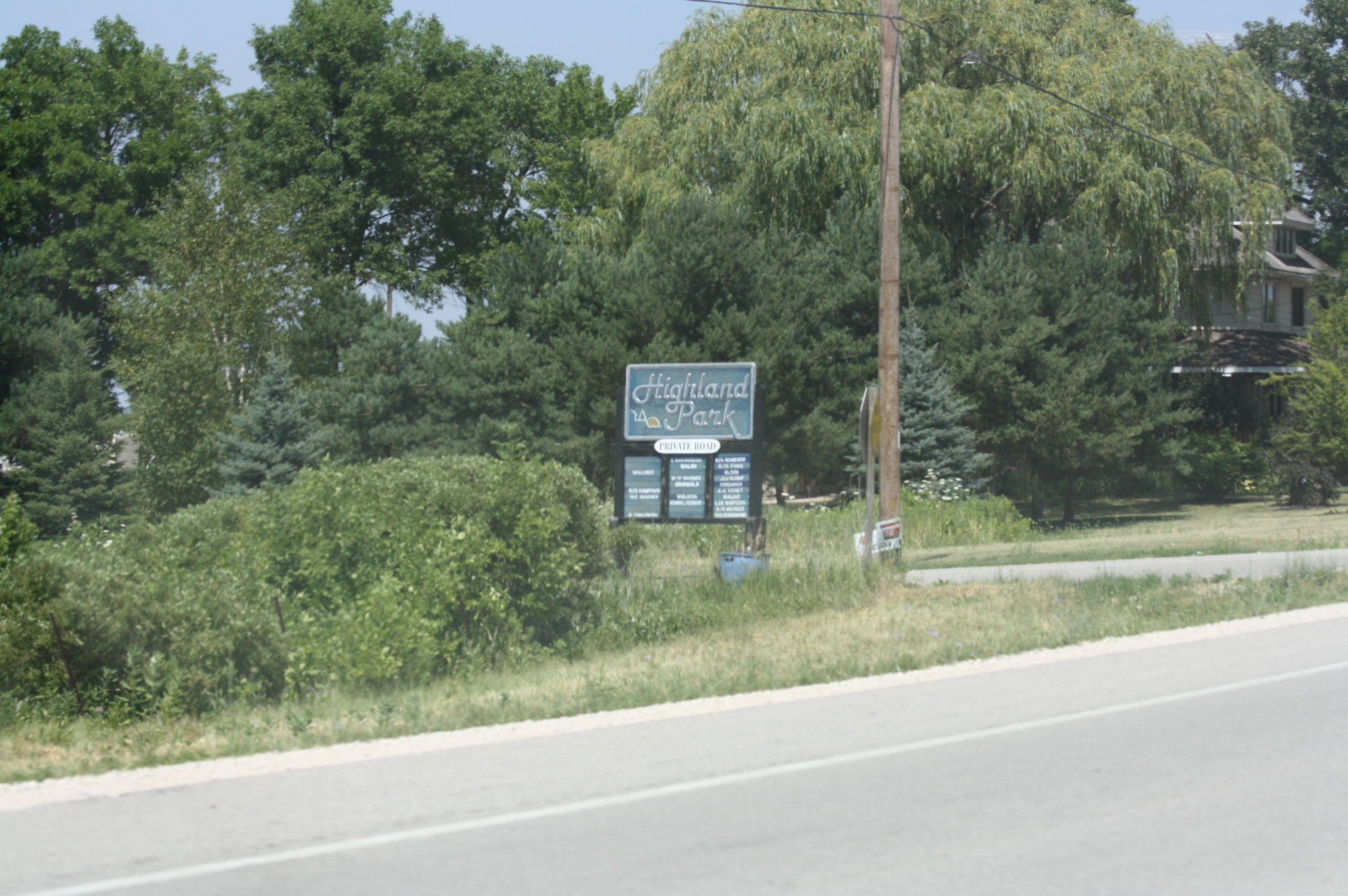 The sign for Highland Park, Wisconsin.